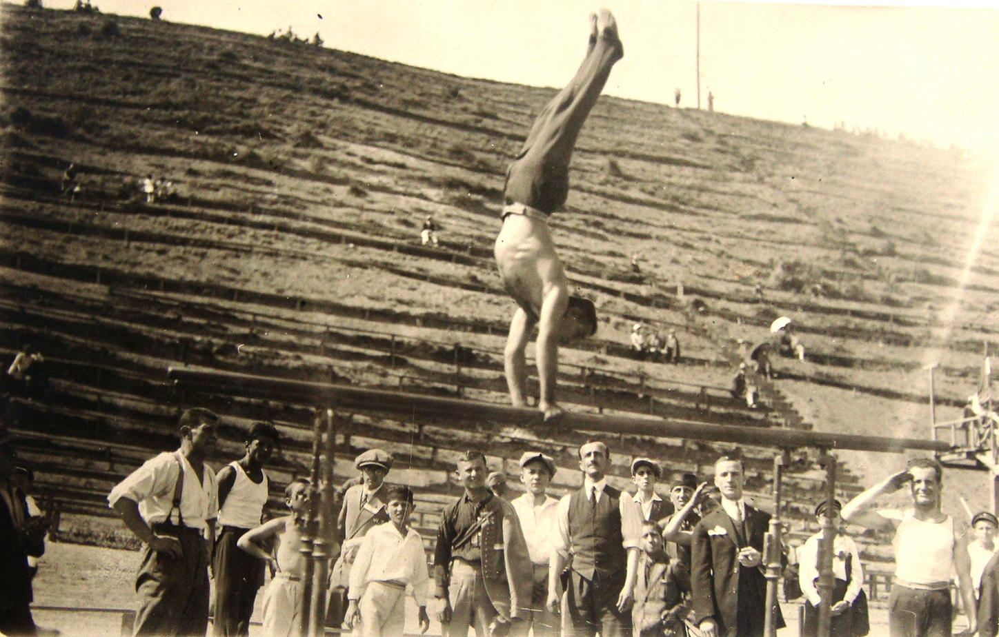 Historical images of Skopje: Jamboree in Skopje. This media file is produced by Wikipedian in Residence in Category:Wikipedian in Residence at DARM in 2016.